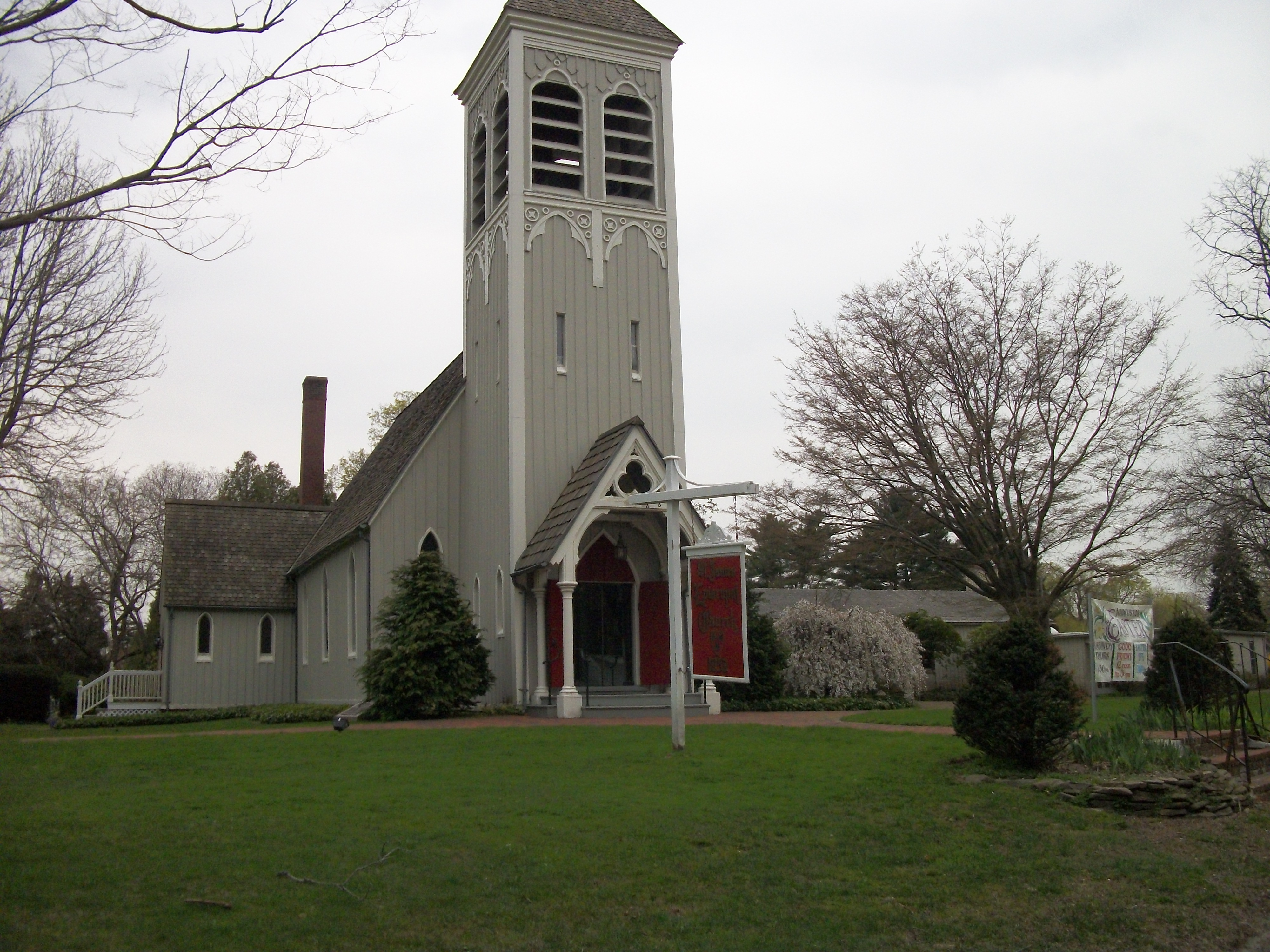 The St. James Episcopal Church on New York State Route 25A, a contibuting property of the Saint James District, in St. James, New York.